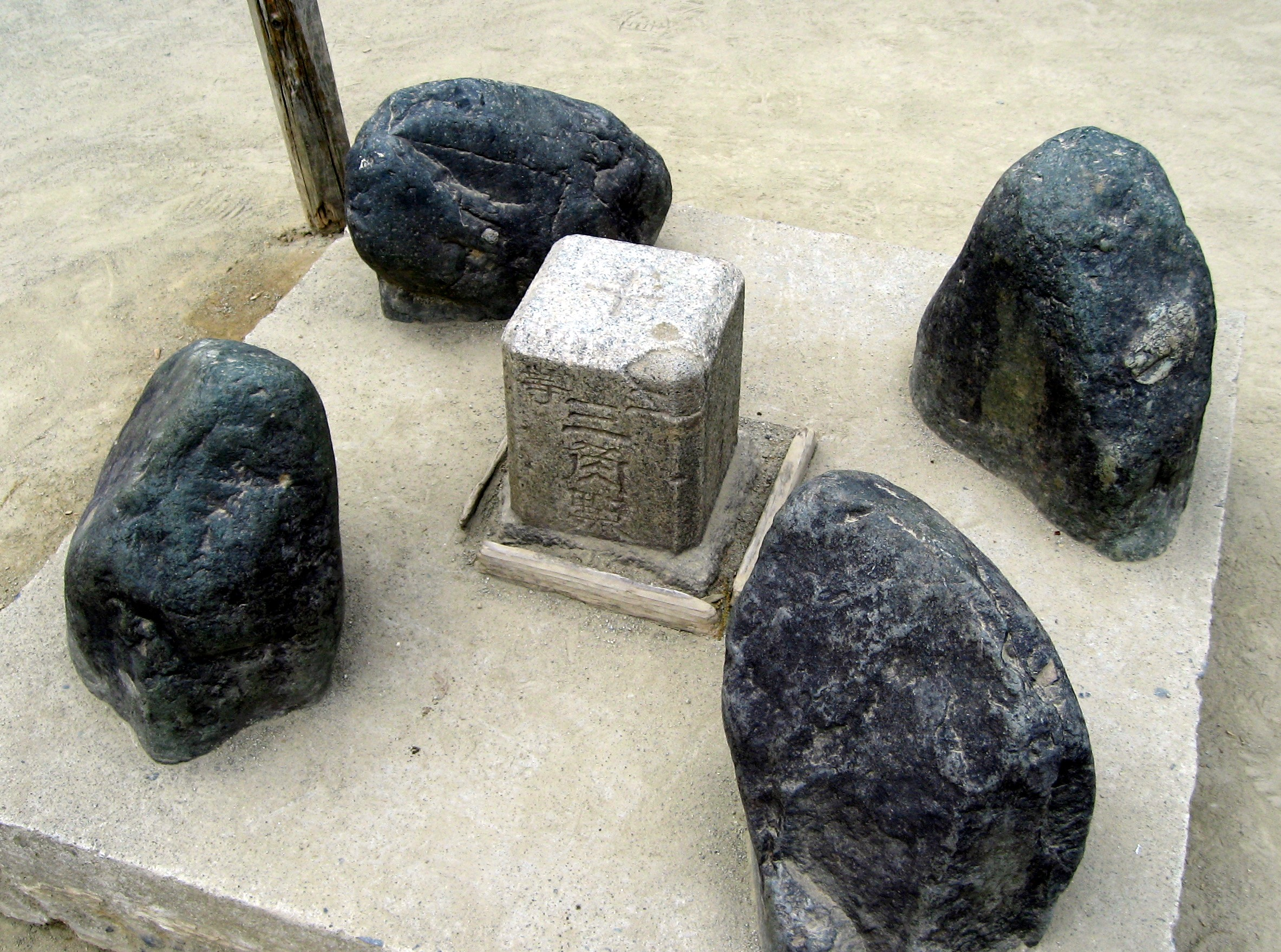 2nd class of triangulation point on Mt. Takao in Hachioji, Tokyo, Japan. (Taken in wide range.)